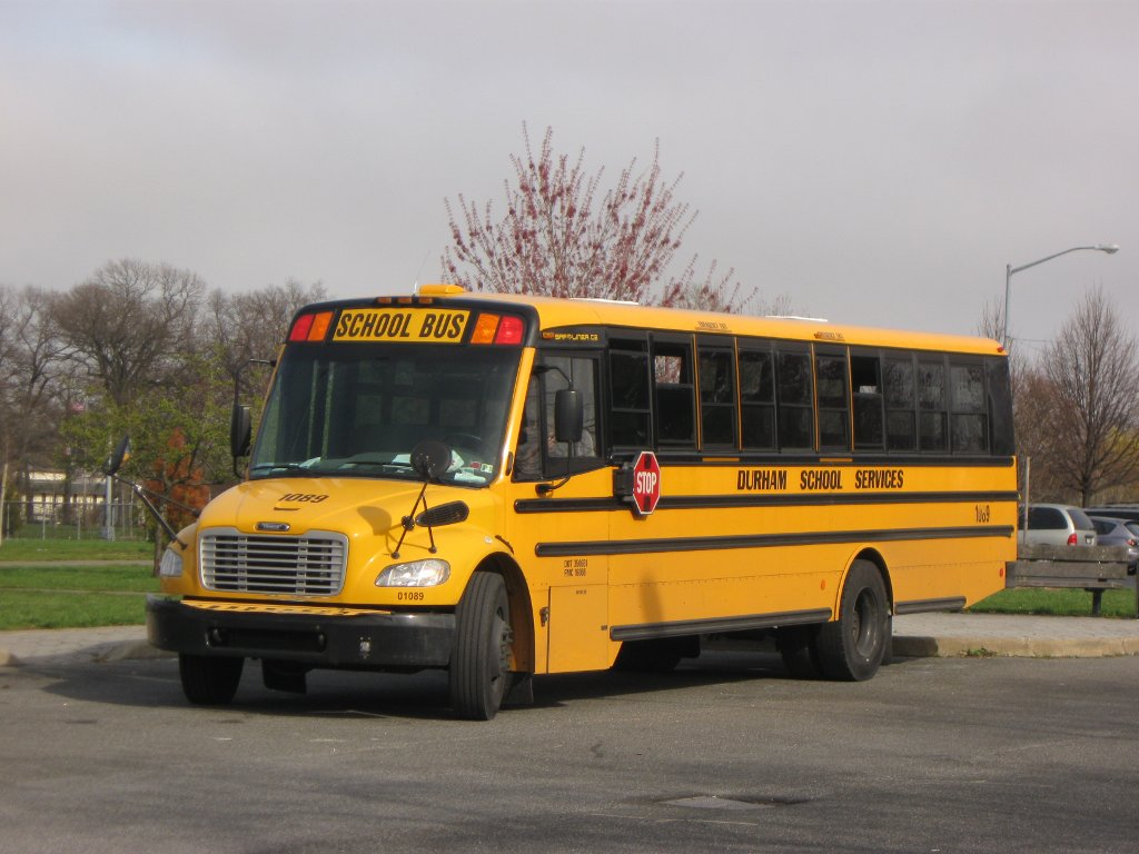 Durham School Services (a National Express company) school bus #01089 sits in Roy K. Wilkins Park in Queens, New York City.